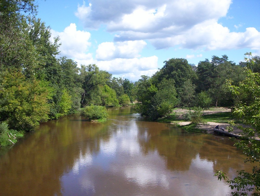 River Świder in nature reserve Świder, border between Józefów and Otwock, Poland.